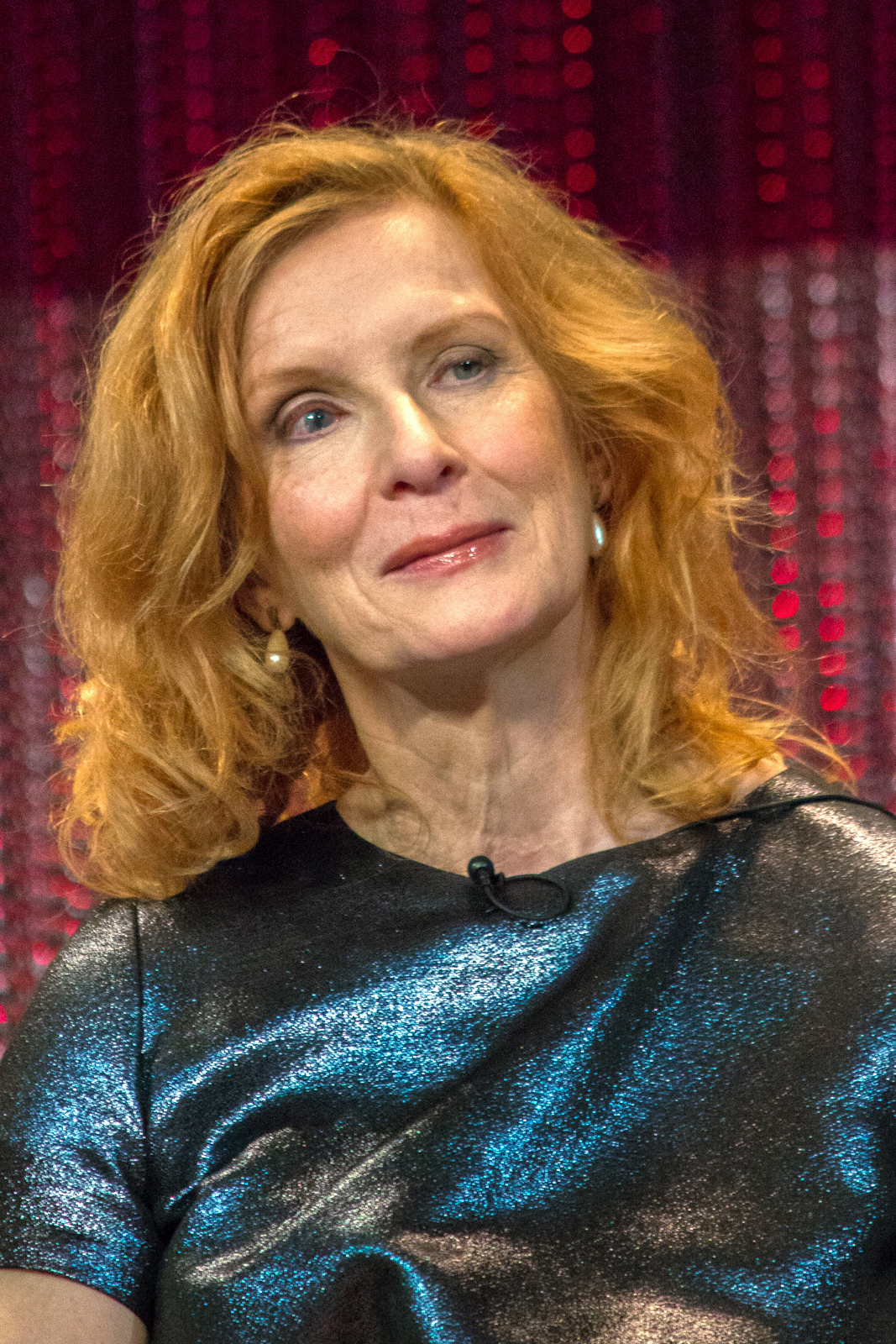 Frances Conroy at PaleyFest 2014 for the TV show "American Horror Story: Coven"